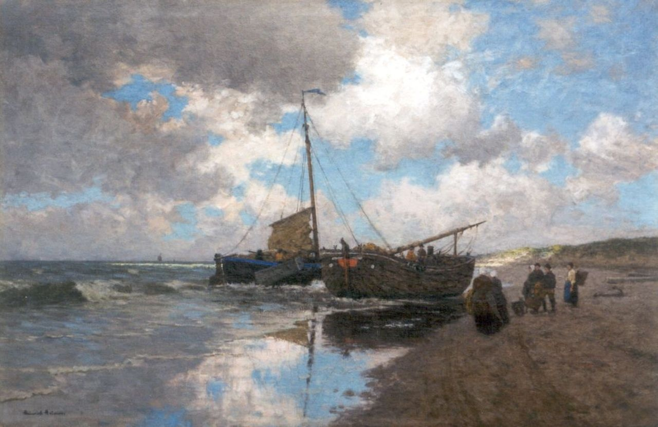 Na de vangst, Egmond aan Zee